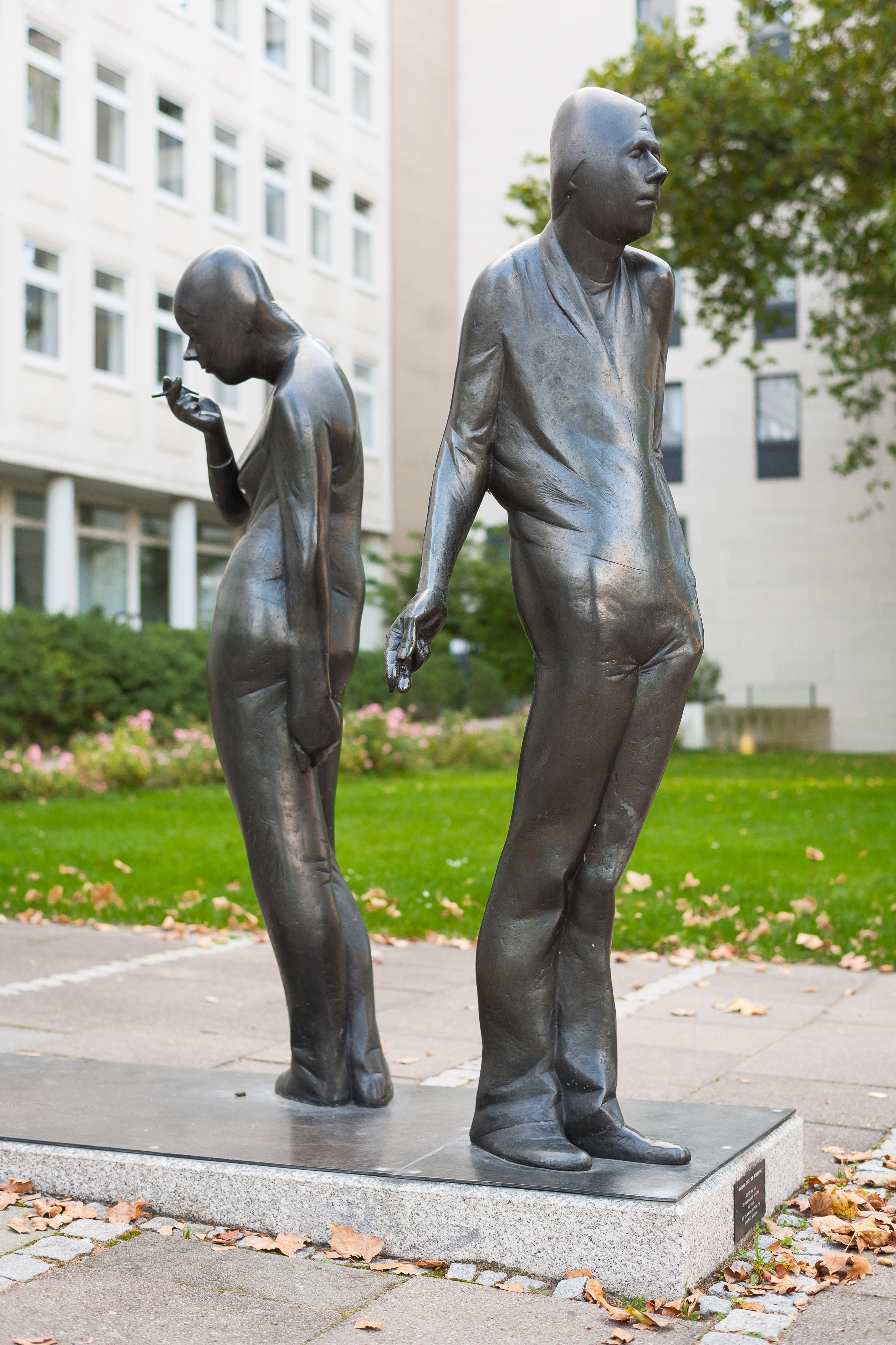 Sculpture "Die Begegnung" (= the encounter) by Waldemar Otto in front of the house of the Hanover region located at Hildesheimer Strasse 18 in Hanover, Germany.